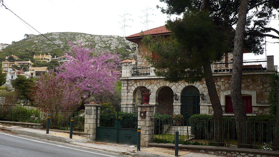 The above picture depicts a residence at Penteli.